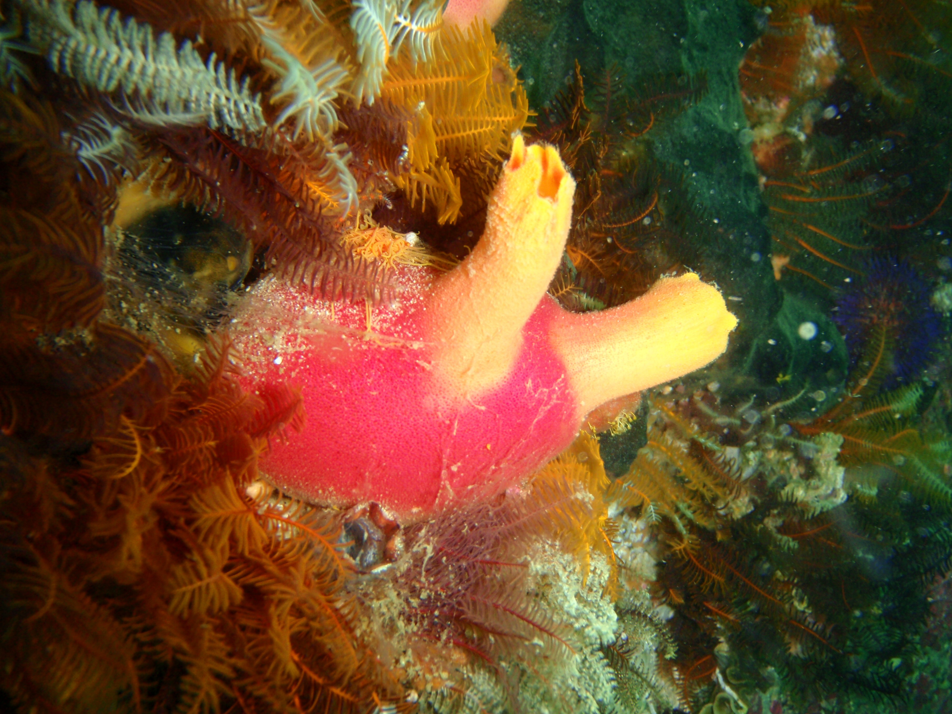 Red spotted sea squirt at Windmill Beach on the Cape Peninsula